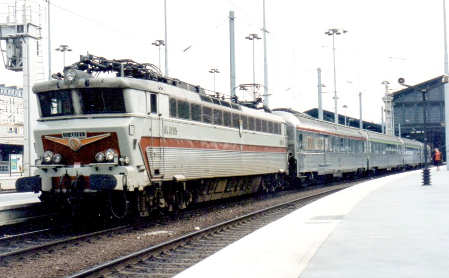 CC 40105 hauling train 87/88, the EuroCity Étoile du Nord in Paris-Nord station.